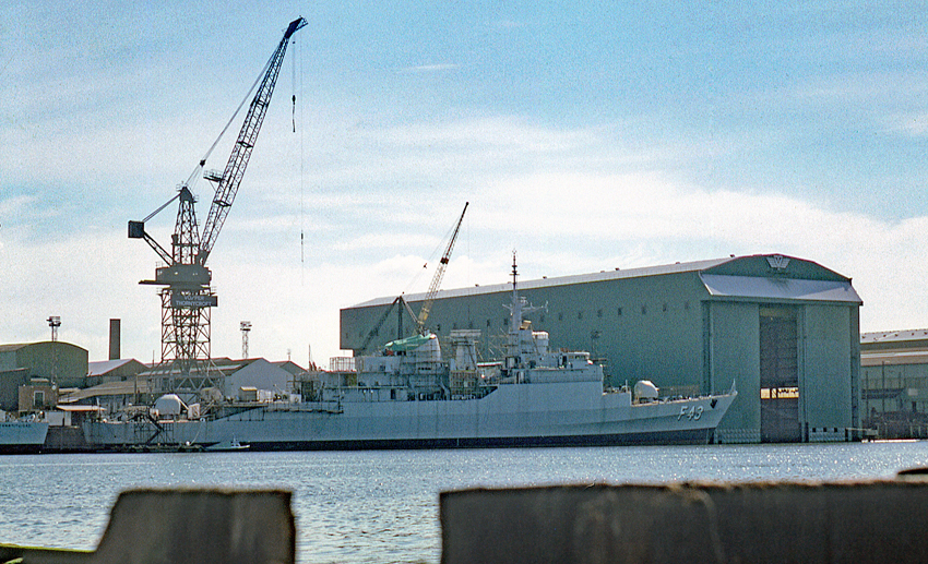 F43 Liberal VT Mk10 Brazilian ‘Niteroi’ class fitting out at Vosper Thorneycroft, Woolston. Scanned from a Kodachrome 35mm slide.